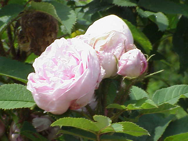 Species: Rosa sp. Family: Rosaceae Cultivar: Madame Edouard Ory Image No. 13